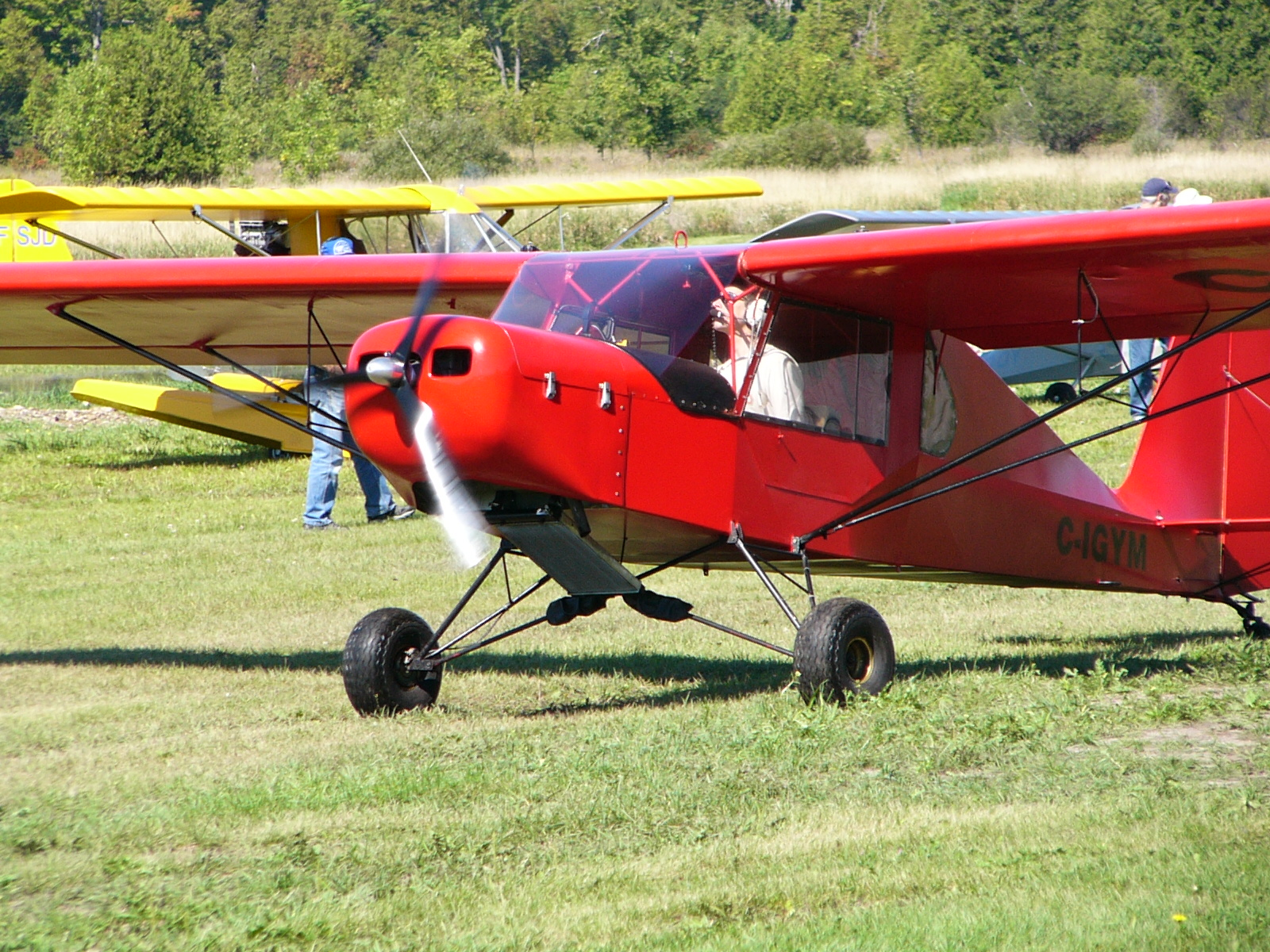 L'il Hustler Aviation L'il Buzzard at Carleton Place Fly-in, Carleton Place Airport, Ontario, Canada.